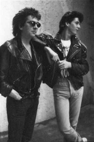 Subject: Rob Fisher & Simon Climie, aka Climie Fisher Date: May 1988 Place: Montreux, Switzerland Photographer: Andwhatsnext Original 35mm photograph scanned; First posted at Credit: Copyright (c) 1988 by Nancy J Price